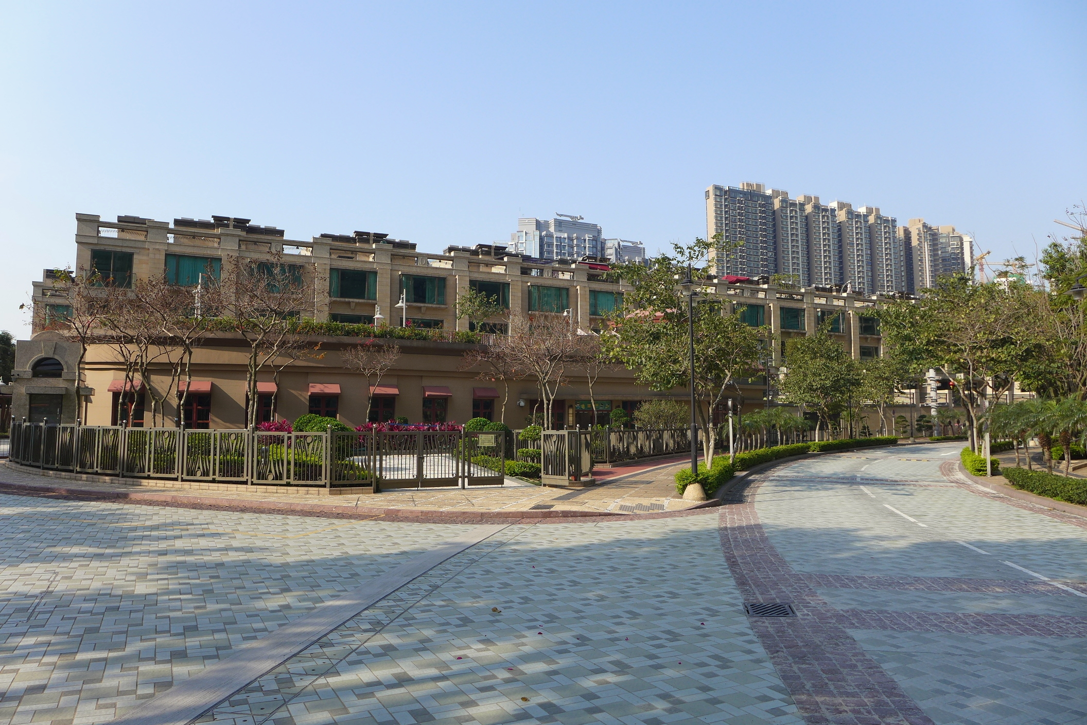 La Mer Caribbean Coast